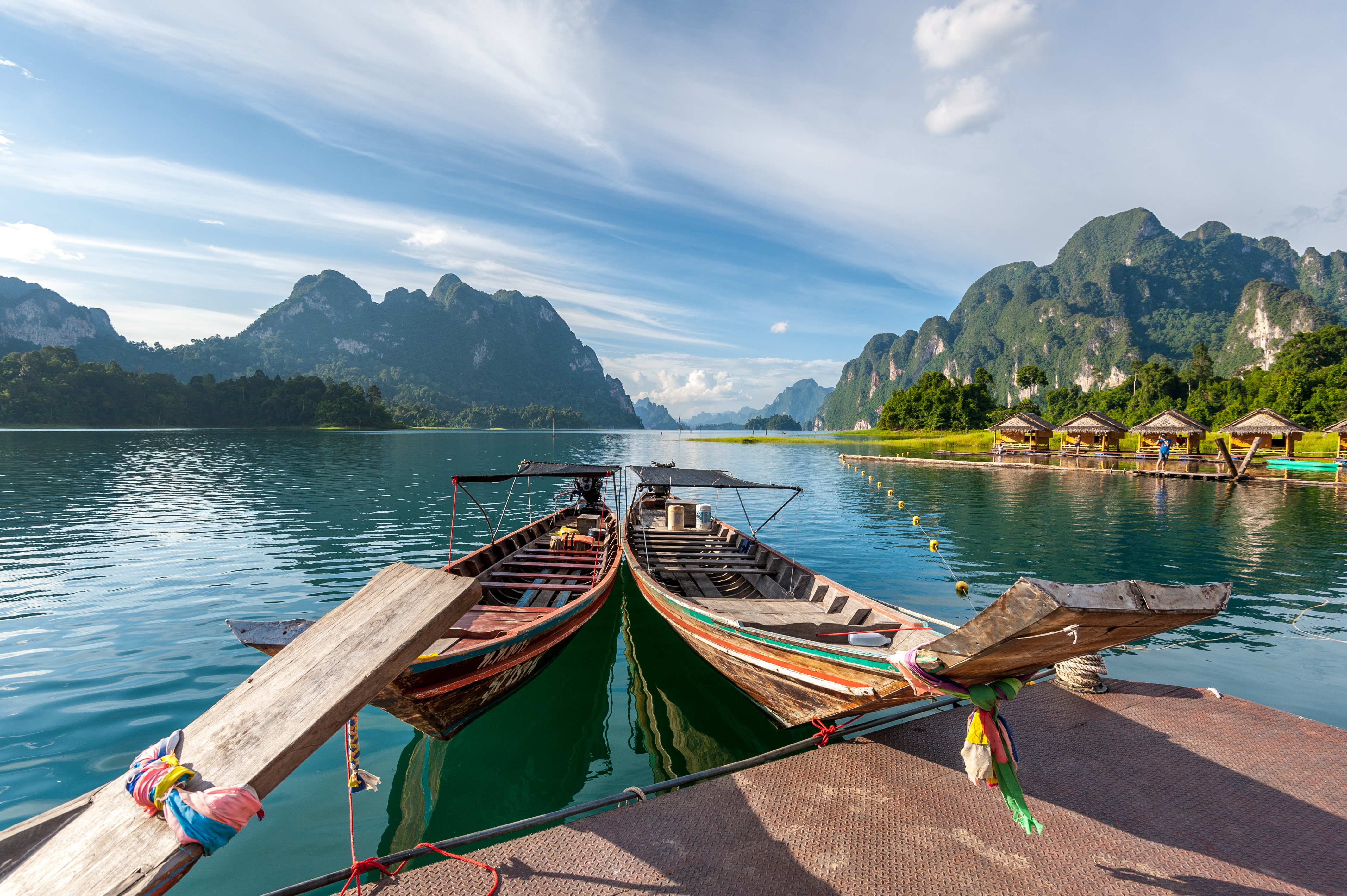 The lake of Ratchaprapha (Chiao Lan) Dam, Khao Sok National Park, Surat Thani Province